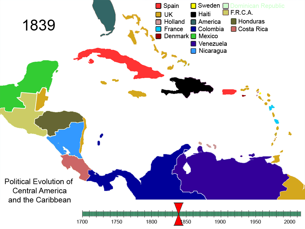 Political Evolution of Central America and the Caribbean